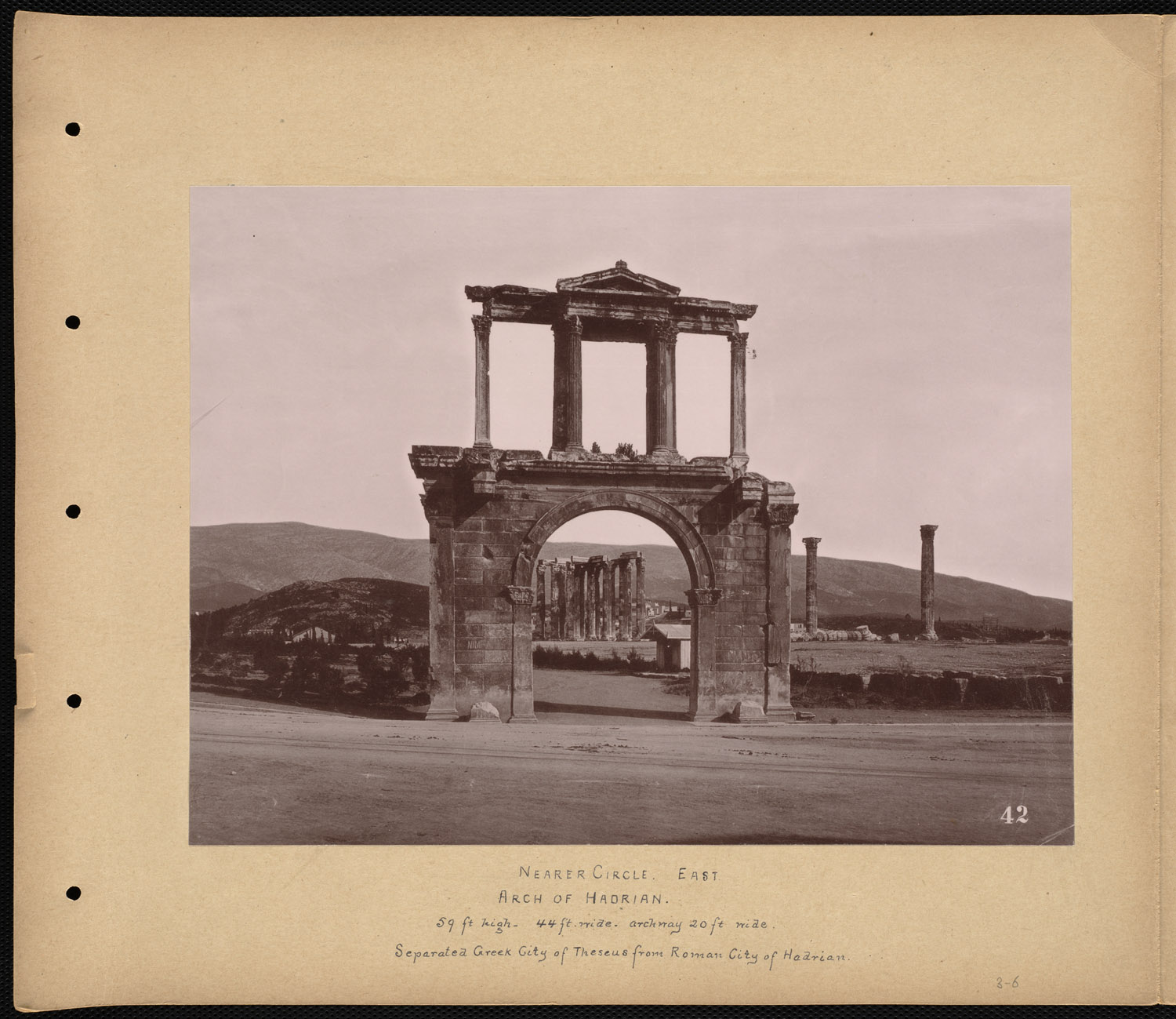 BPLDC no.: 08_04_000389 Page Title: Nearer circle. East. Arch of Hadrian Collection: Tupper Scrapbooks Collection Album: Volume 3: Athens. Call no.: 4098B.104 v3 (p. 6) Creator: Tupper, William Vaughn Genre: Scrapbooks; Albumen prints Extent: 1 photographic print mounted on page : albumen ; page 33 x 39 cm. Description: Scrapbook page contains one photograph of the Arch of Hadrian, annotated with architectural information about the site. Transcription: 59 ft high. 44 ft wide. Archway 20 ft wide. Separated Greek city of Theseus from Roman city of Hadrian. Notes: Page description supplied by cataloger, derived from captions and/or annotated information.; Caption on image: 42 BPL Department: Print Department Rights: No known restrictions. Flickr data on 2011-08-26: Camera: Sinar AG Sinarback 54 FW, Sinar m License: CC BY 2.0 User: Boston Public Library Boston Public Library